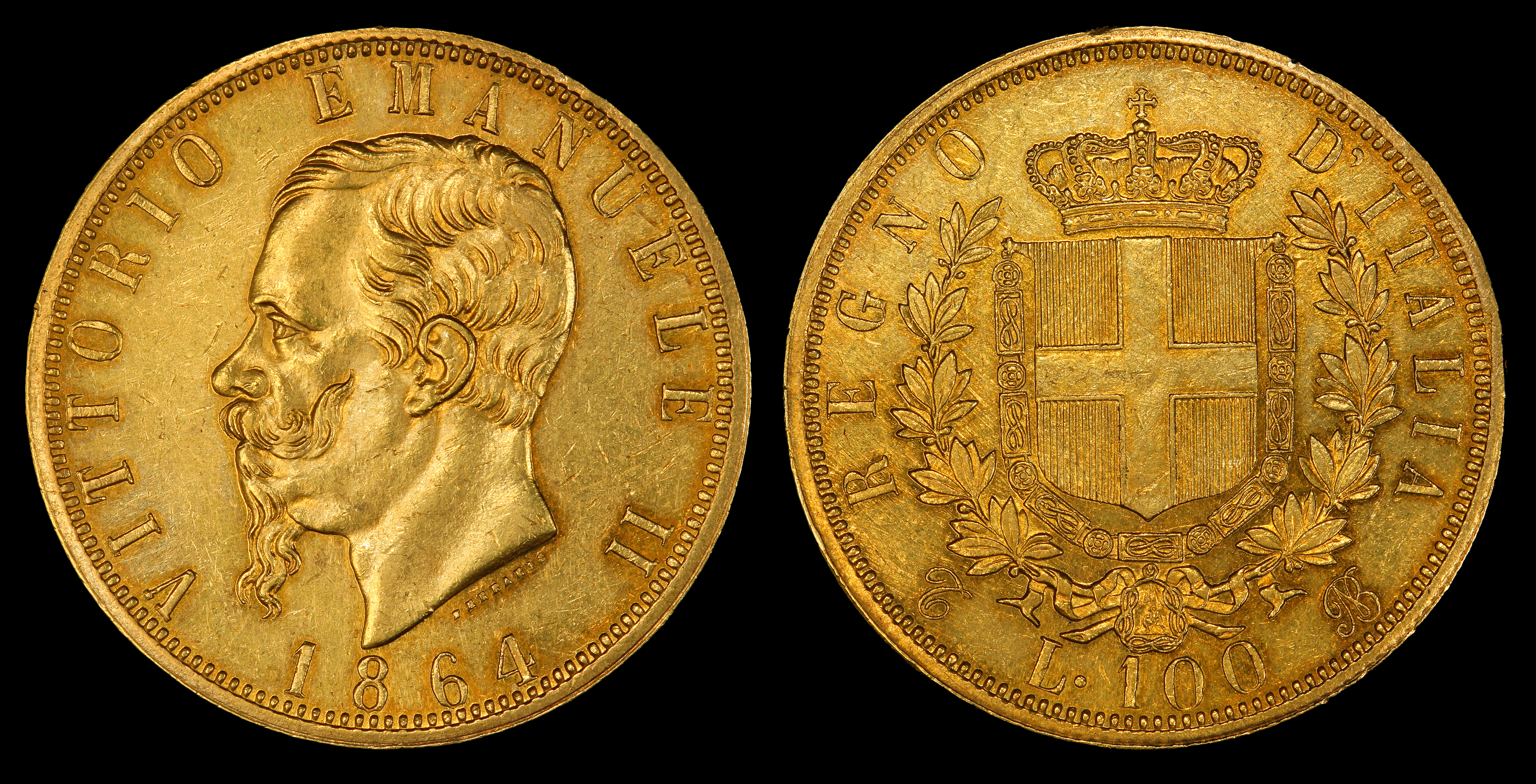 Italy, 100 Lira (1864). Depicting Victor Emmanuel II. 32,25 g. 35 mm